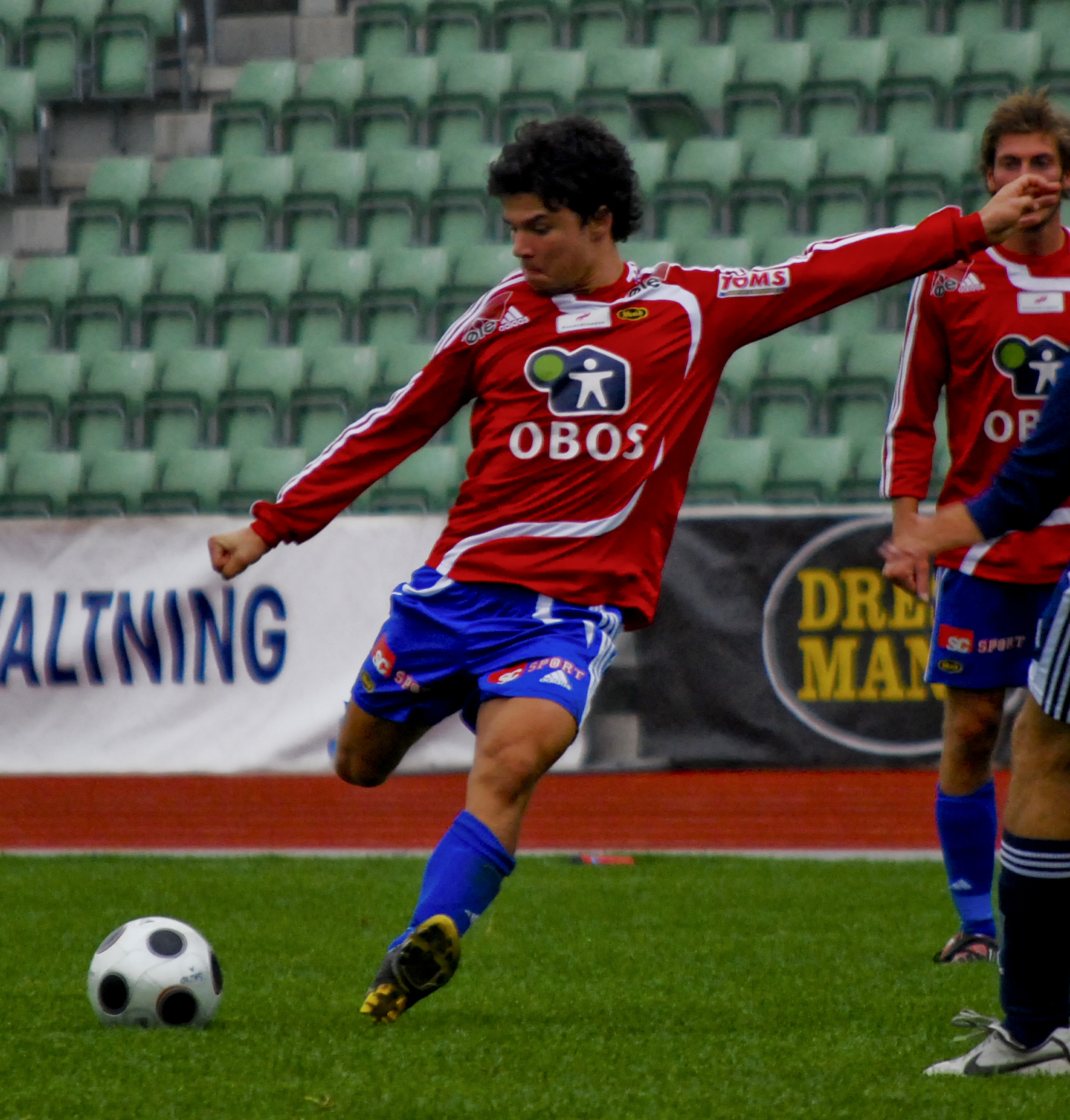 Skeid's Preben Mankowitz in a match against Kristiansund BK on Bislett stadion in 2008.